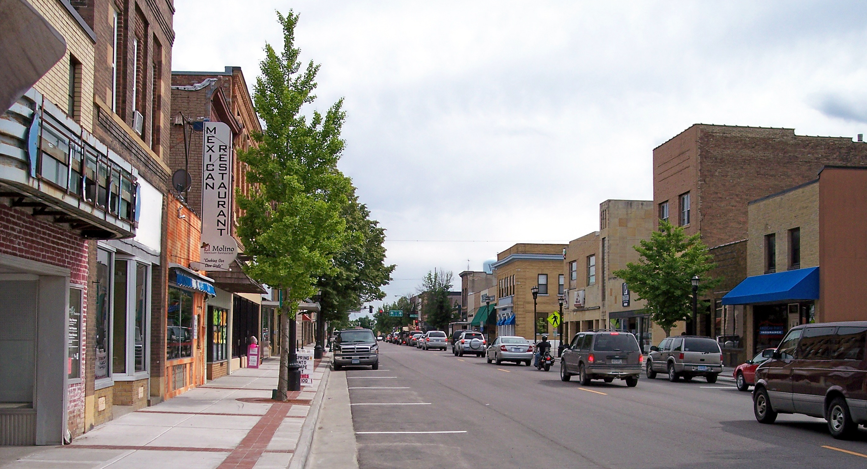 State Street (Minnesota State Highway 13) in downtown Waseca, Minnesota